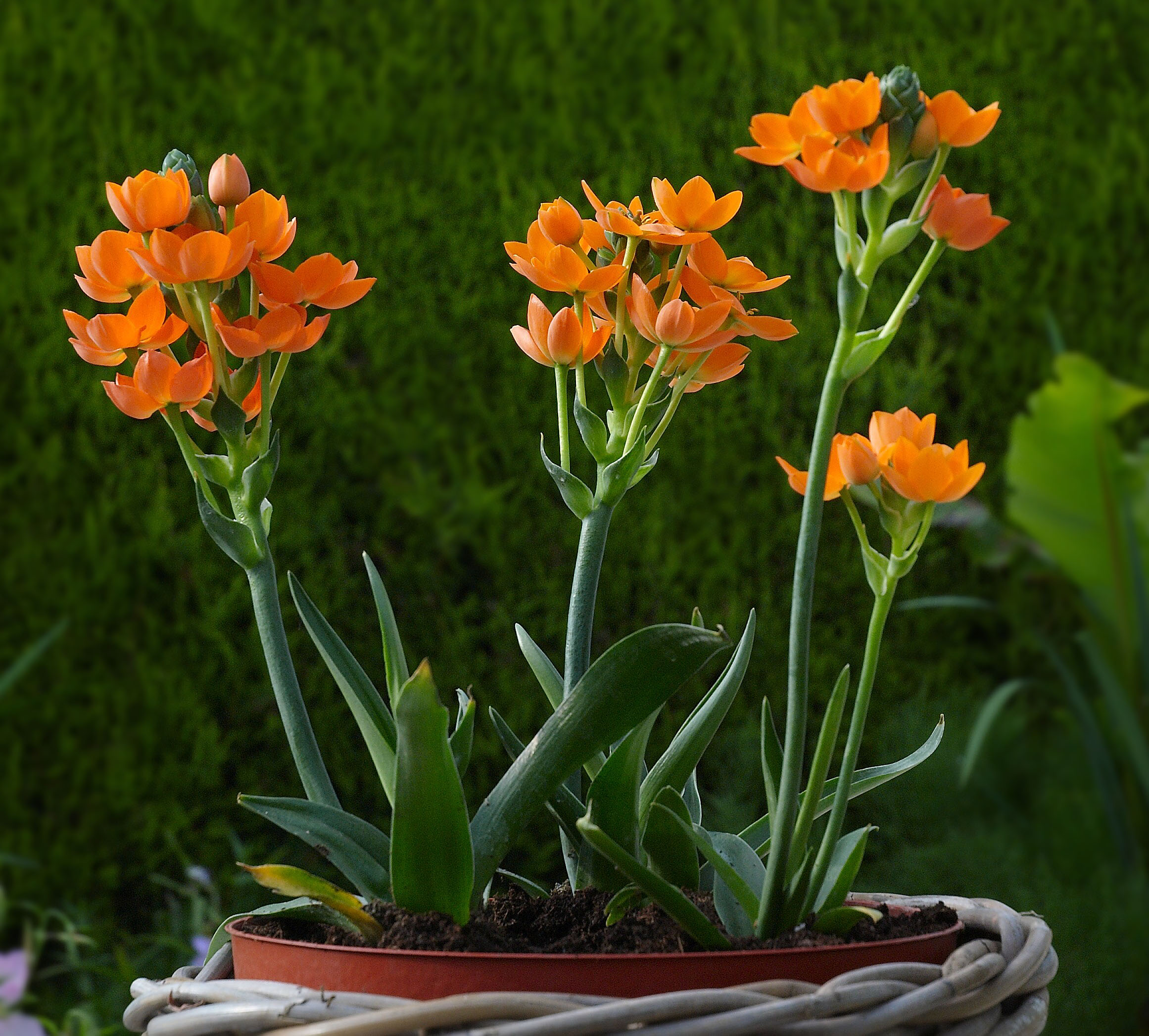 Sun Star